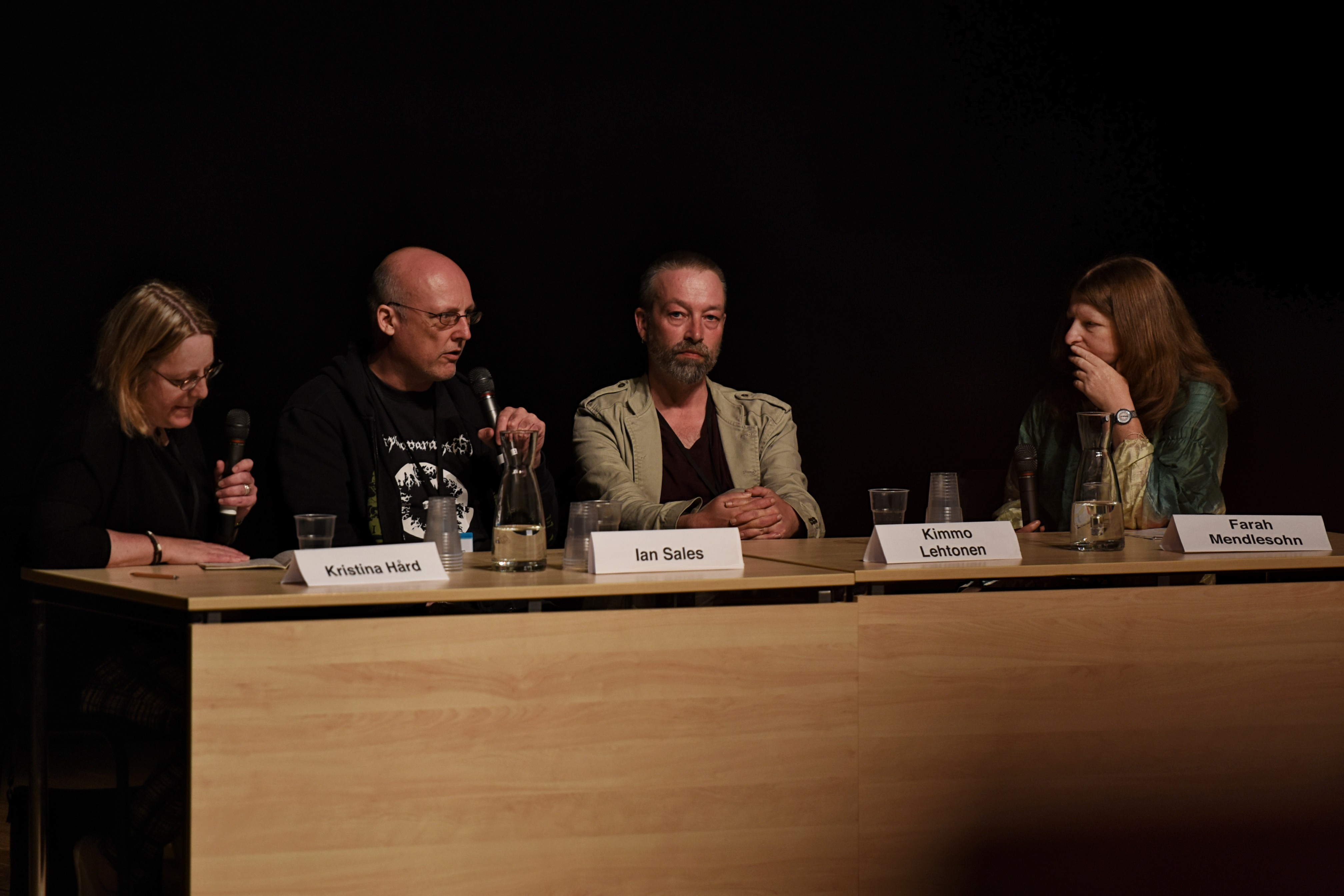 Writers Kristina Hård (Sweden), Ian Sales (England), Kimmo Lehtonen (Finland) and scholar Farah Mendlesohn (England) at Archipelacon, 2015.